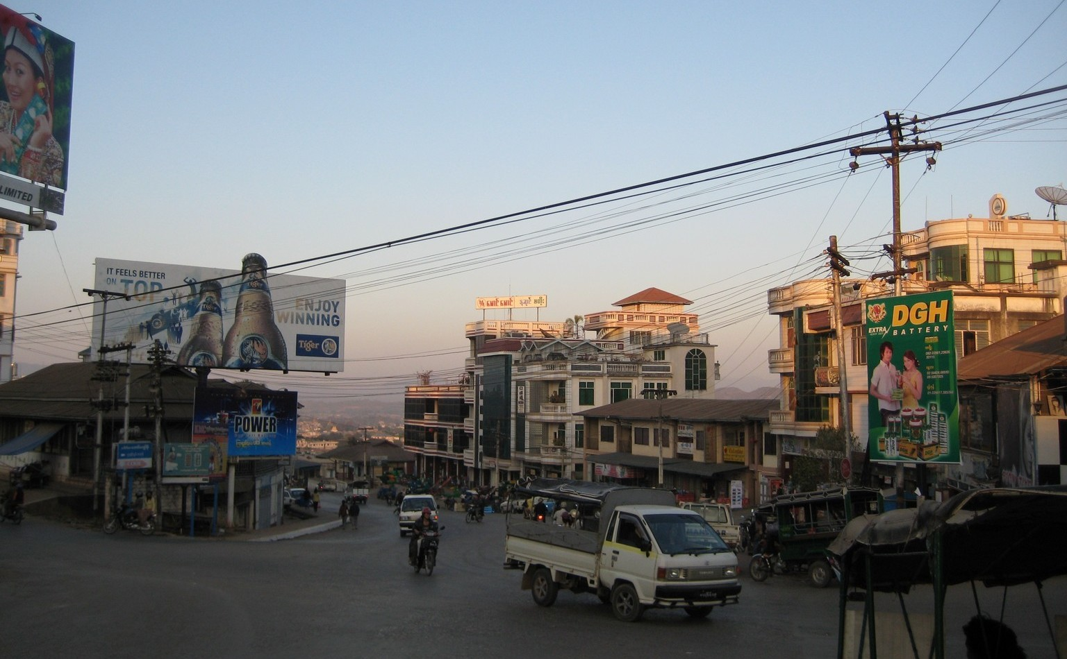 Lashio, Shan State